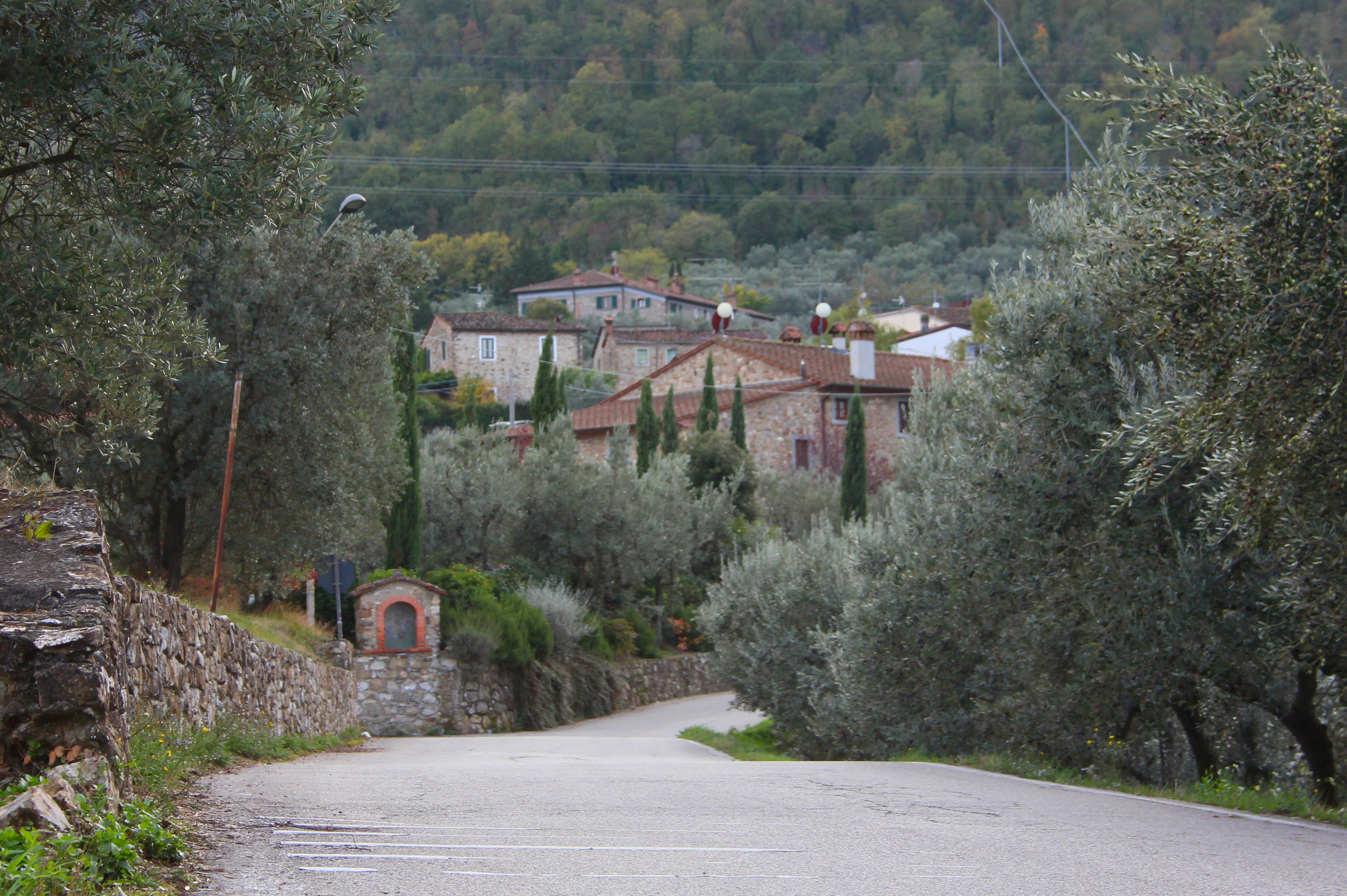 Buriano, hamlet of Quarrata, Province of Pistoia, Tuscany, Italy